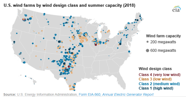 As of the end of 2018, the United States had a total installed wind generating capacity of 94 gigawatts. Four states—Texas, Oklahoma, Iowa, and Kansas—accounted for more than half of the electricity generation from wind turbines in 2018. September 27, 2019